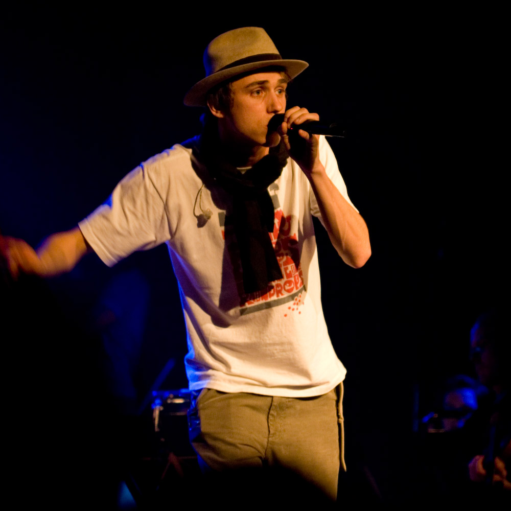 Clueso in concert, Fritzclub, Berlin